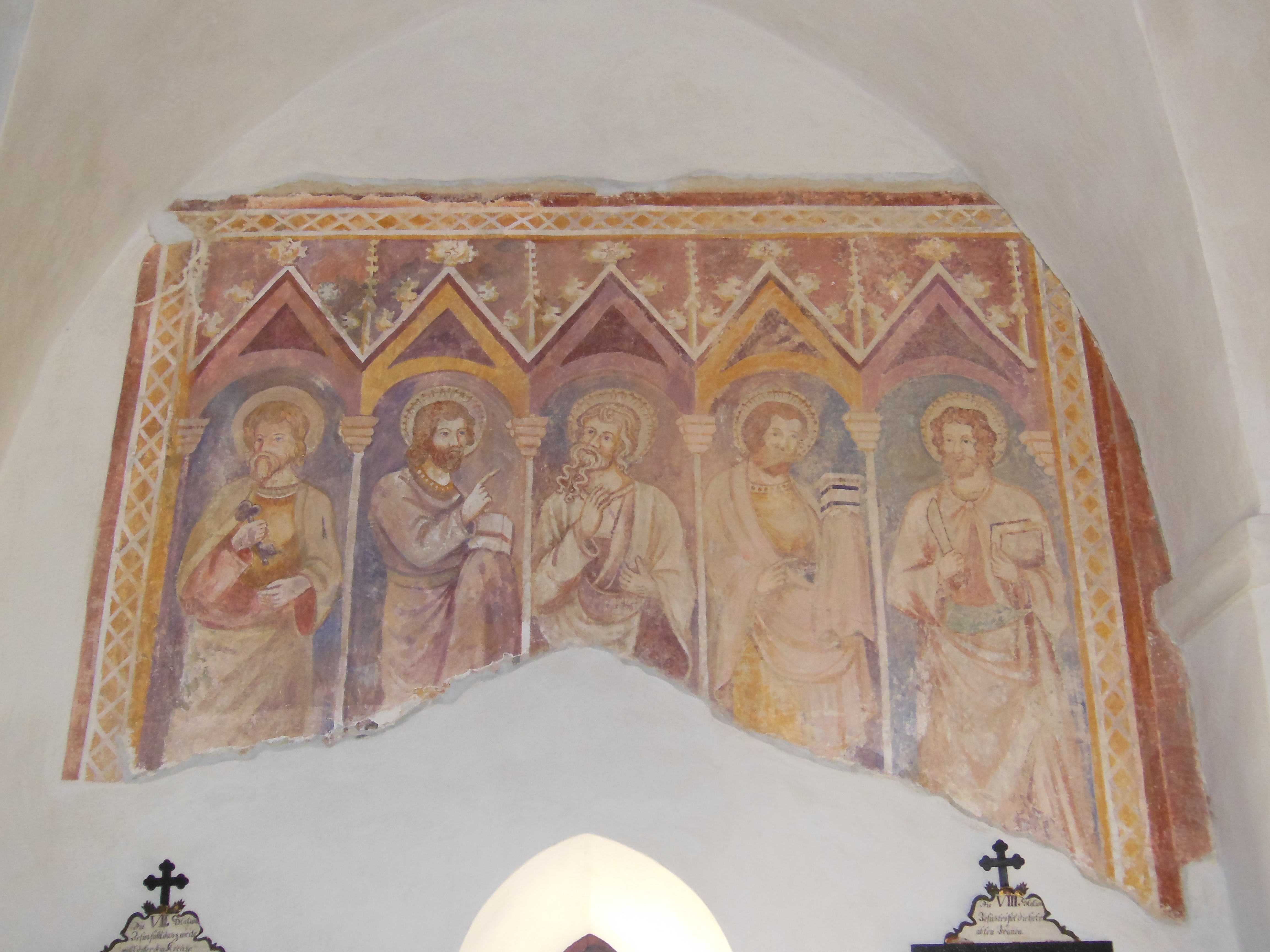 Church St. Vigil am Joch in South Tyrol. Fresco from XIV century.